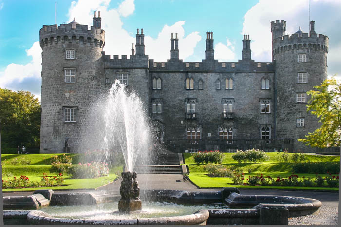 I'm starting to work on my massive backlog - these are photos I took on a short trip to Ireland in October 2004. I lost my notes a long time ago so I have to rely on my fading memory - feel free to fill in any missing blanks or wrong information. It was a good trip; I home based in Dublin and took a number of day trips. I do remember that I needed to get back some time and see the rest of Ireland - what a lovely country!